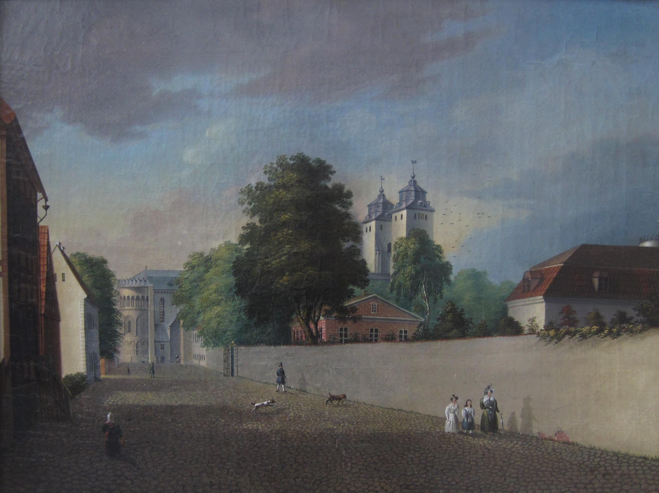 The street Sandgatan in Lund, Sweden. Painting by Joseph Magnus Stäck.